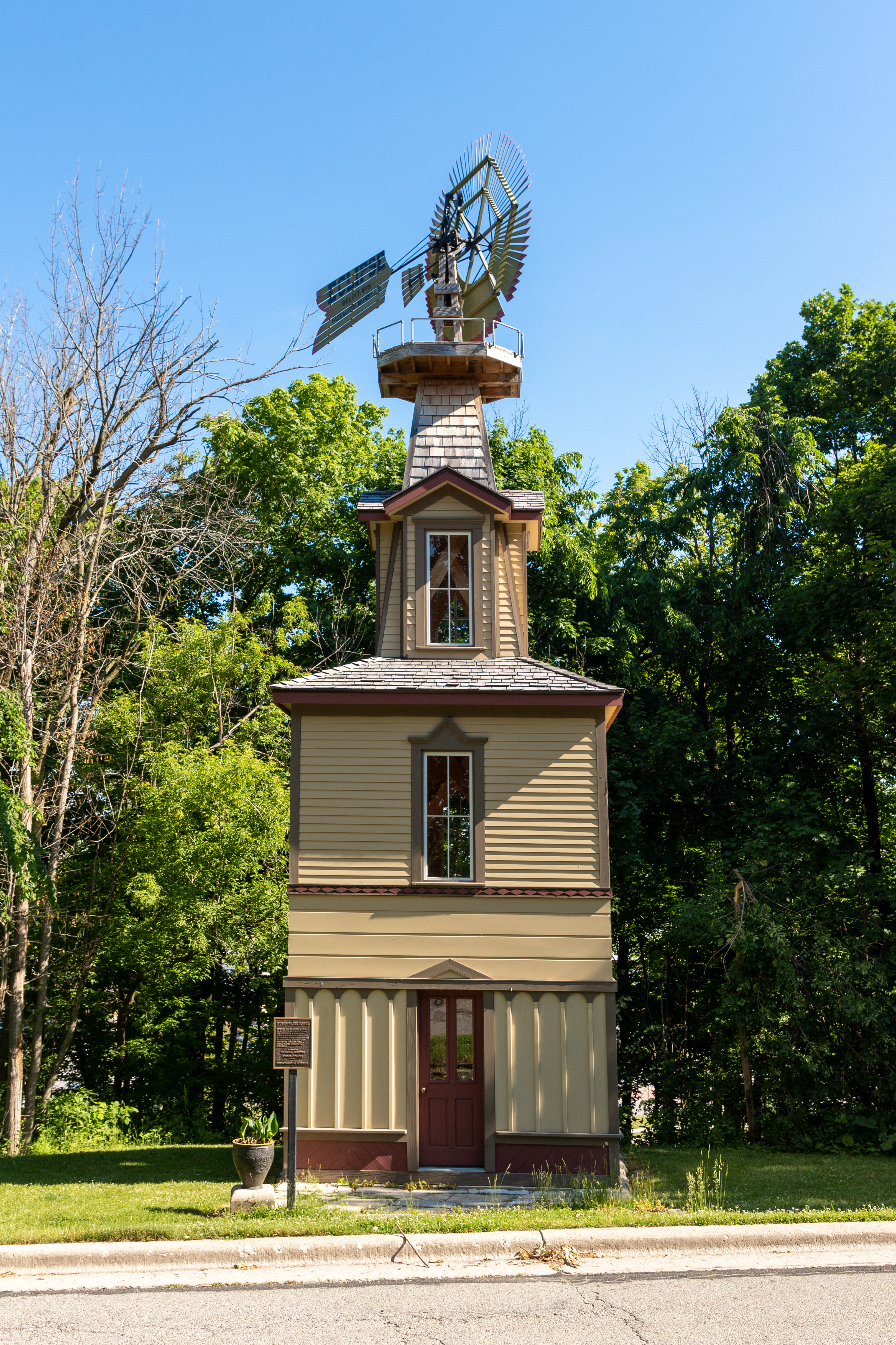 Huson Water Tower, Plymouth, Wisconsin. The structure is a two-story water pump located in front of the house of Hunry H. Huson House. It was constructed in 1887 by the Huson family and was used for approximately 15 years until the installation of a municipal water system in the town. The tower consists of two stories with a copula. The original windmill was replaced with a modern one made by the Eclipse company in Belmont, Wisconsin. Plymouth once had six private water towers; the Huson Water Tower is the only one that remains.